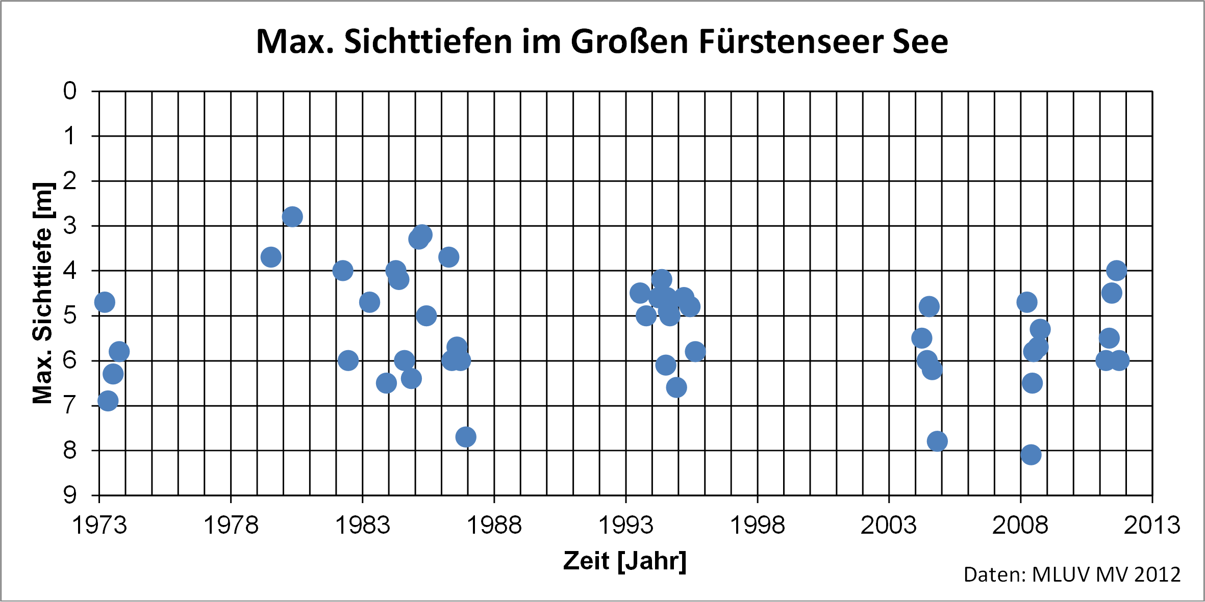 Maximale Sichttiefen im Großen Fürstenseer See (1973-2011)